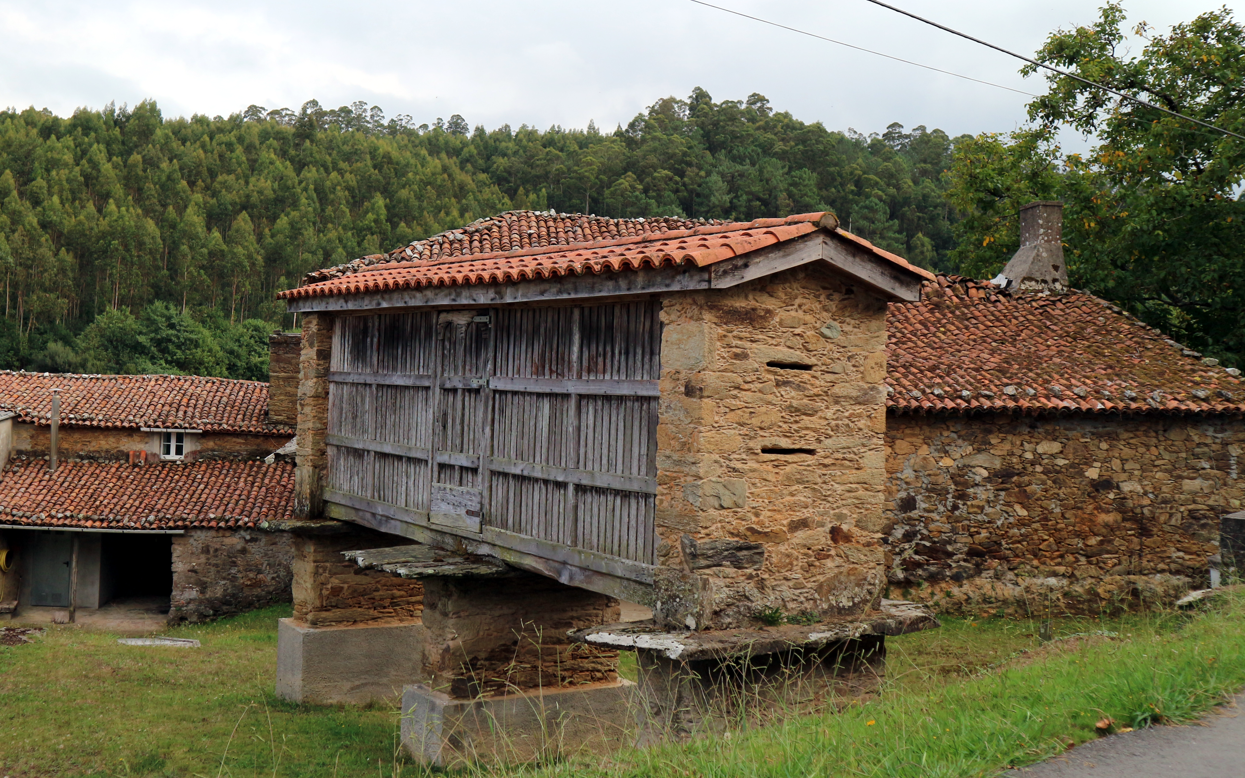 Hórreo de tipo "mariñán" nun casarío de Damil de Arriba. Figueiroa, Abegondo.